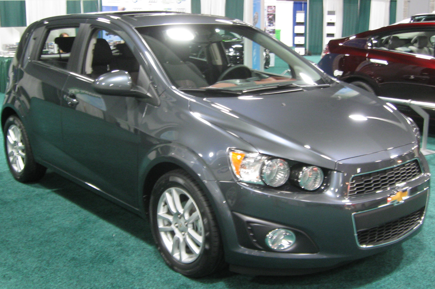 2012 Chevrolet Sonic photographed at the 2011 Washington (D.C.) Auto Show.